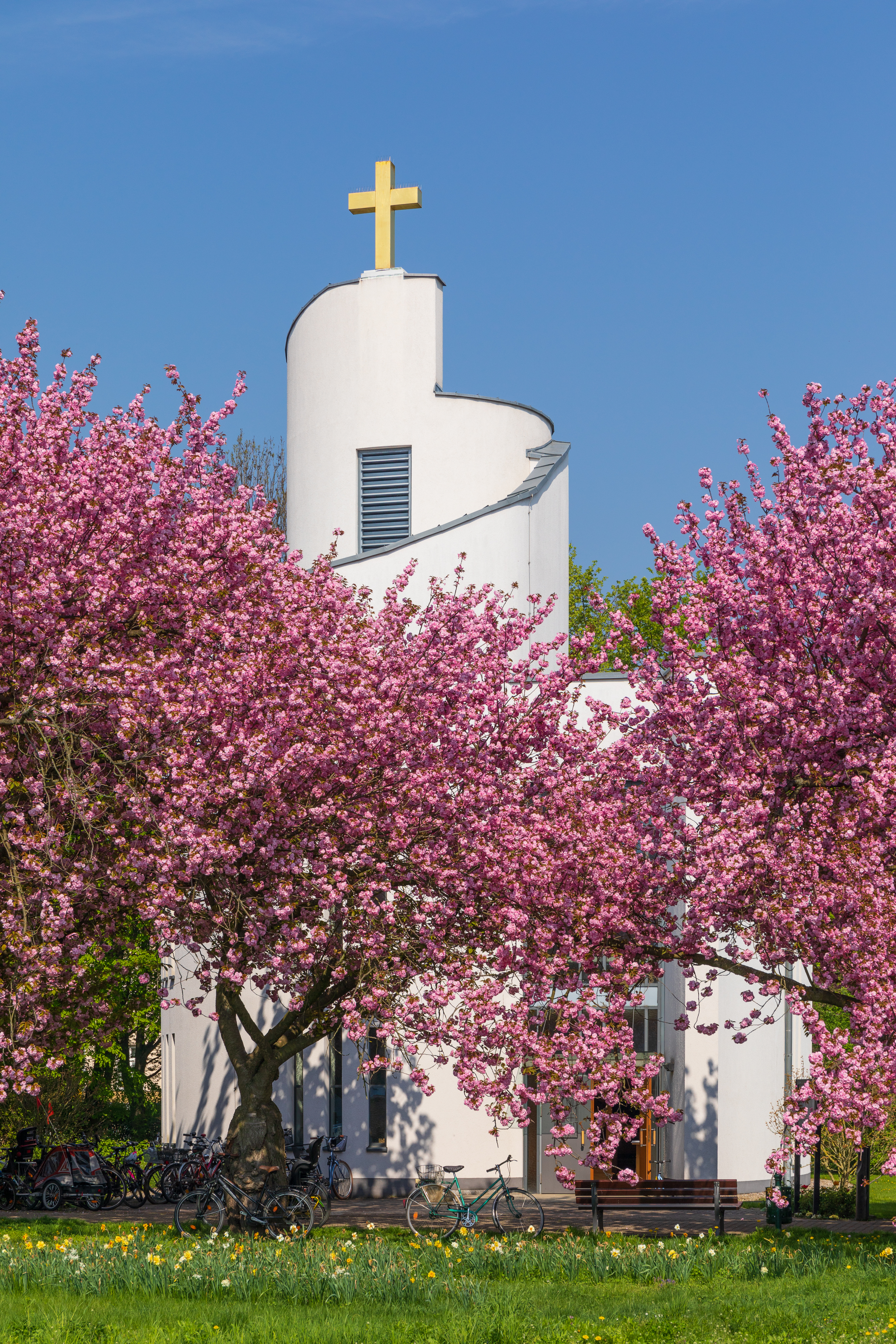 Catholic church of St. Peter and Paul in Markkleeberg (Saxony, Germany) at springtime.